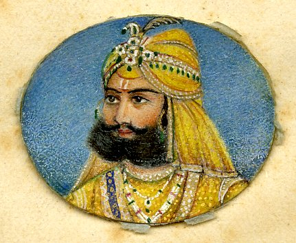 Gouache painting on card. A bust portrait of Sair Sing, King of Lahore, a late Mughal ruler.